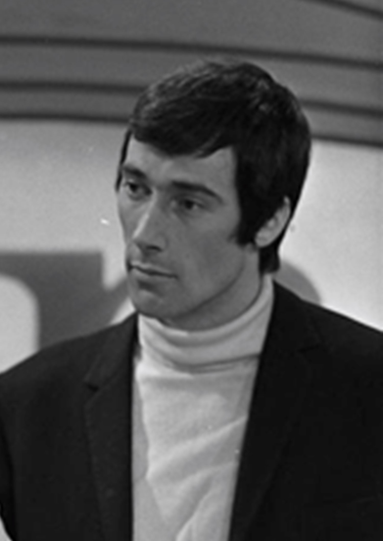 Roger Cook of Bristol band David and Jonathan performing the songs "Looking for my life" and "Ten stories high" in the Dutch TV programme Fanclub. Recorded 7 January 1967, broadcast 13 January 1967